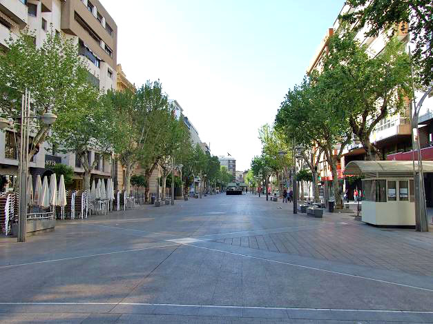 Gran Capitán Avenue, in Córdoba (Spain).